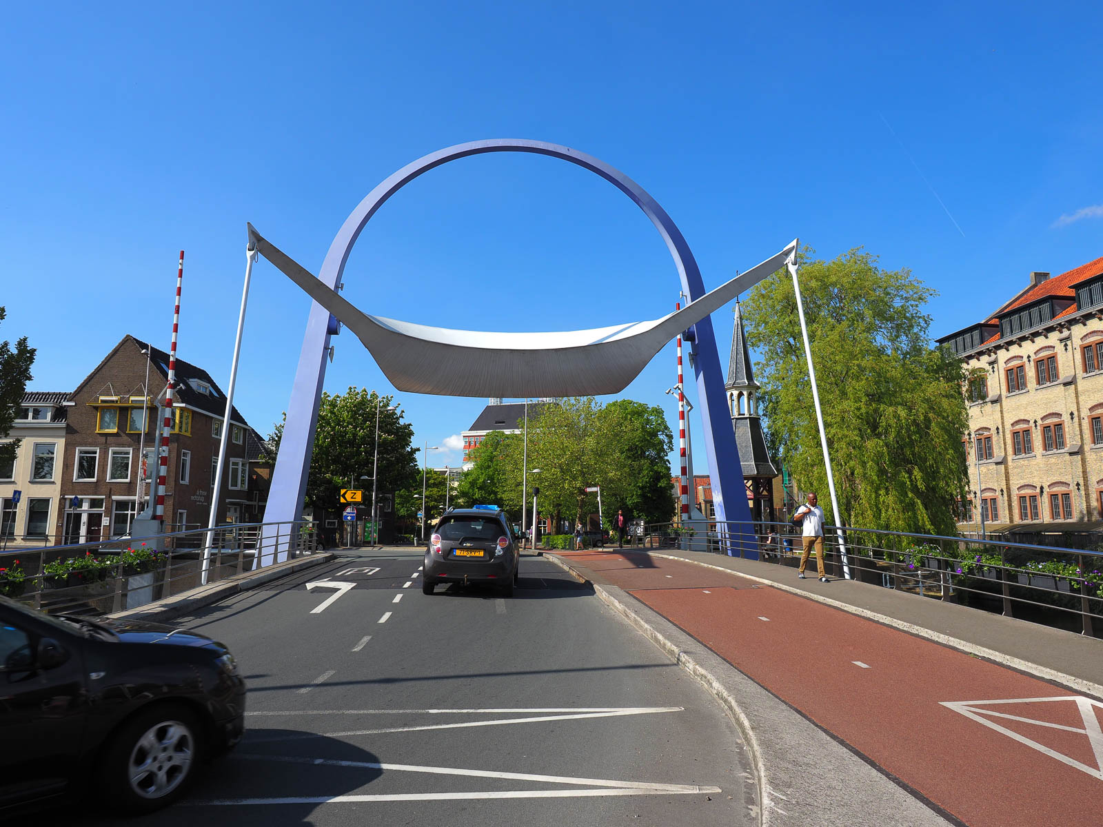 Blokhuisbrug, bridge over the Zuidergracht in Leeuwarden, the Netherlands